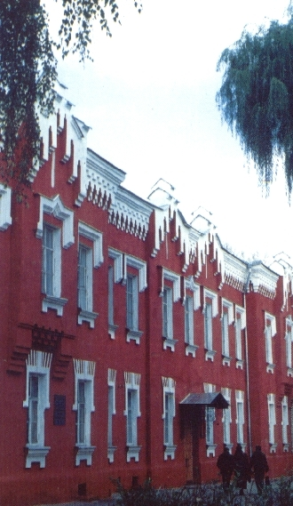 Hlukhiv National Pedagogical University, view from behind